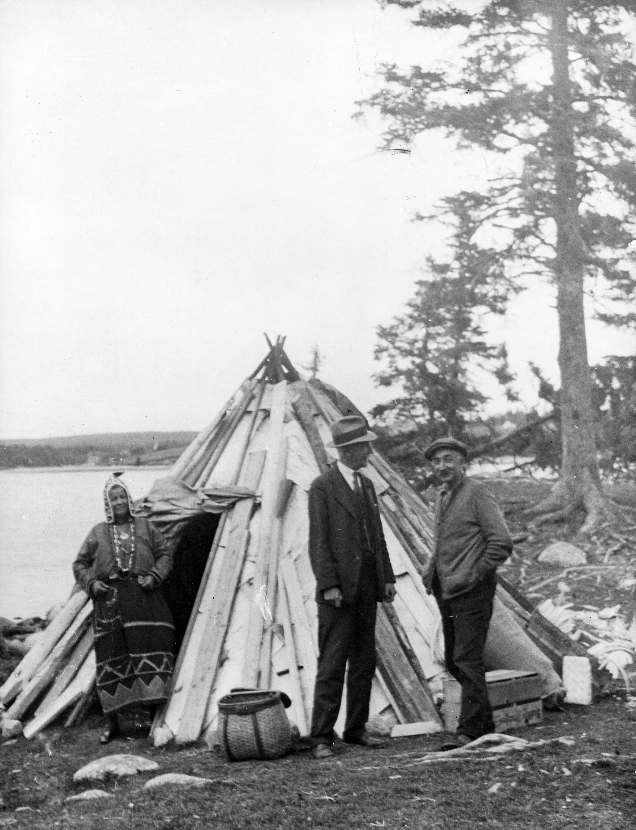 "Birch-bark summer 'camp' or wigwam of Micmac Indian, Henry Sack (son of Isaac Sack) and his wife Susan (in typical old Micmac woman's costume) on Indian Point, Fox Point Road, near Hubbards, Lun. Co., N.S. Left to right: Susan Sack, Harry Piers of Halifax, and Henry Sack of Indian reservation, Truro, N.S. View looking northeast...Carrying basket made by Henry Sack, [NS] Museum acc. no. 8305."